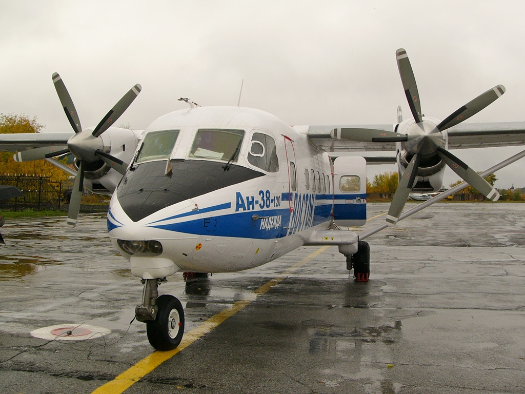 Just arrival from Gorno-Altaysk.